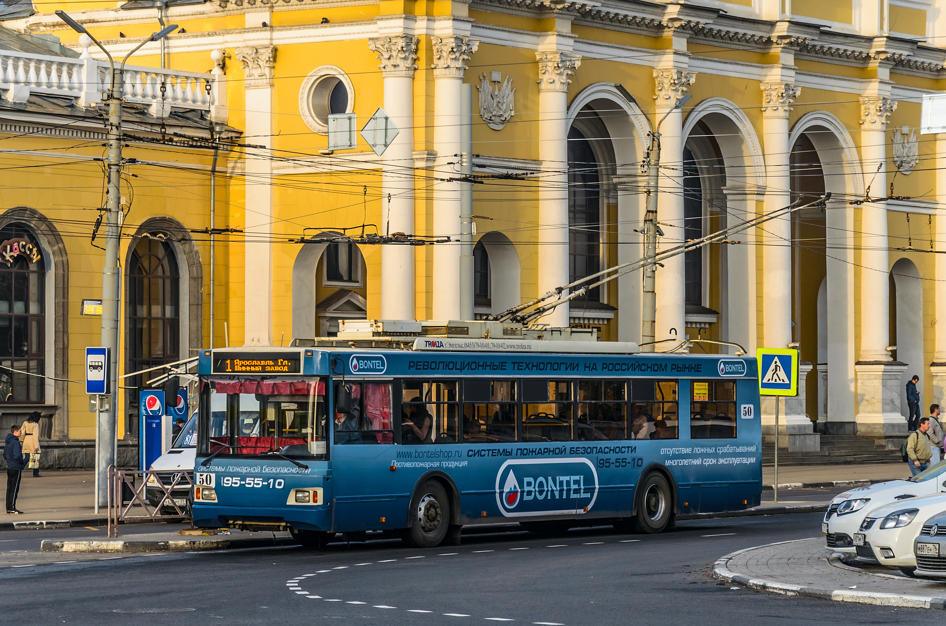 Trolleybus TrolZa-5275.07 in Yaroslavl